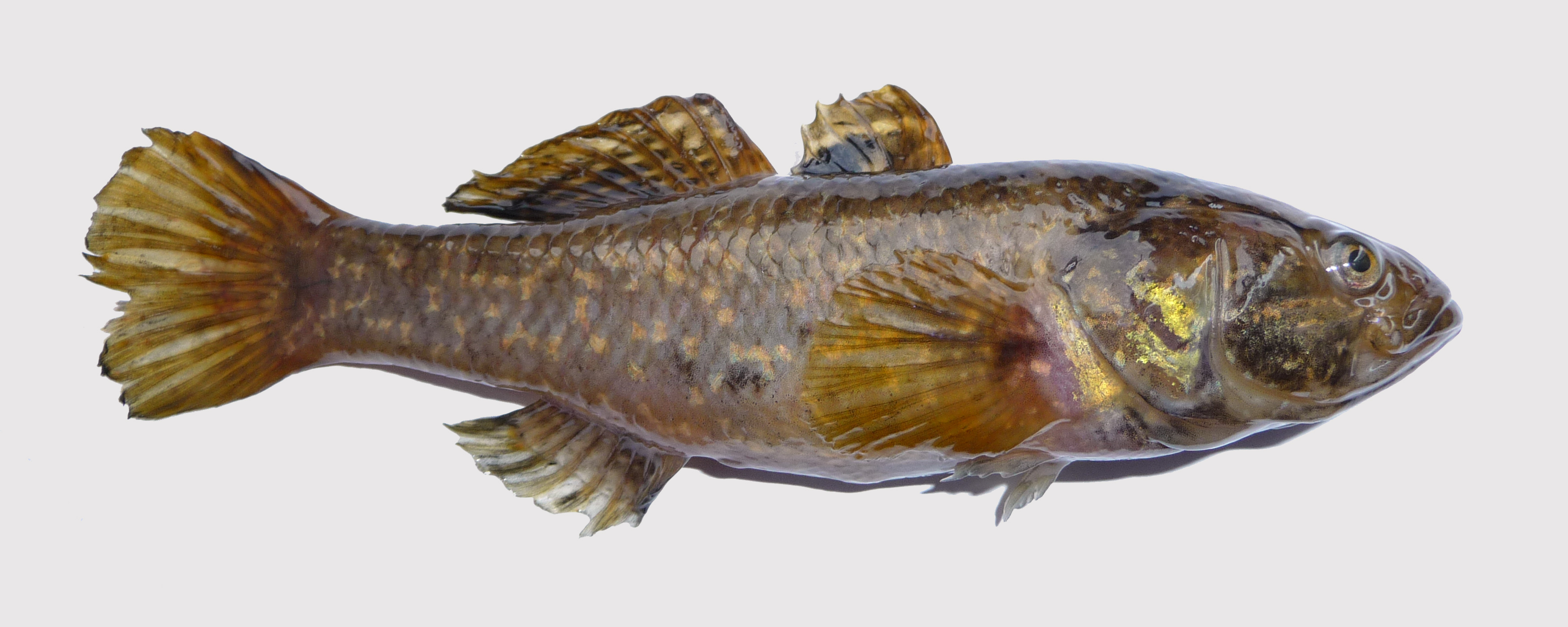 Chinese sleeper, Amur sleeper (Perccottus glenii) - freshwater fish of Odontobutidae family. Found in wild in Ukraine, near Vinnitsa (Vinnytsia) in 2009.